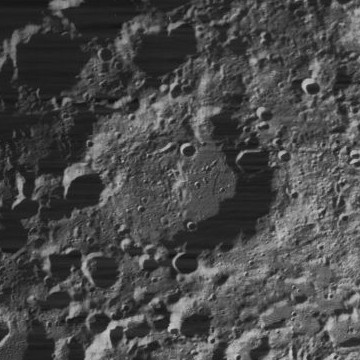 Oblique view of Nansen crater, near the north pole of the moon, facing east.